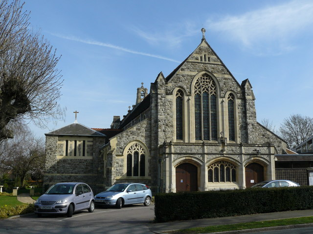 St Mark's parish church, Church Road, Woodcote, south London (formerly Surrey), seen from the west